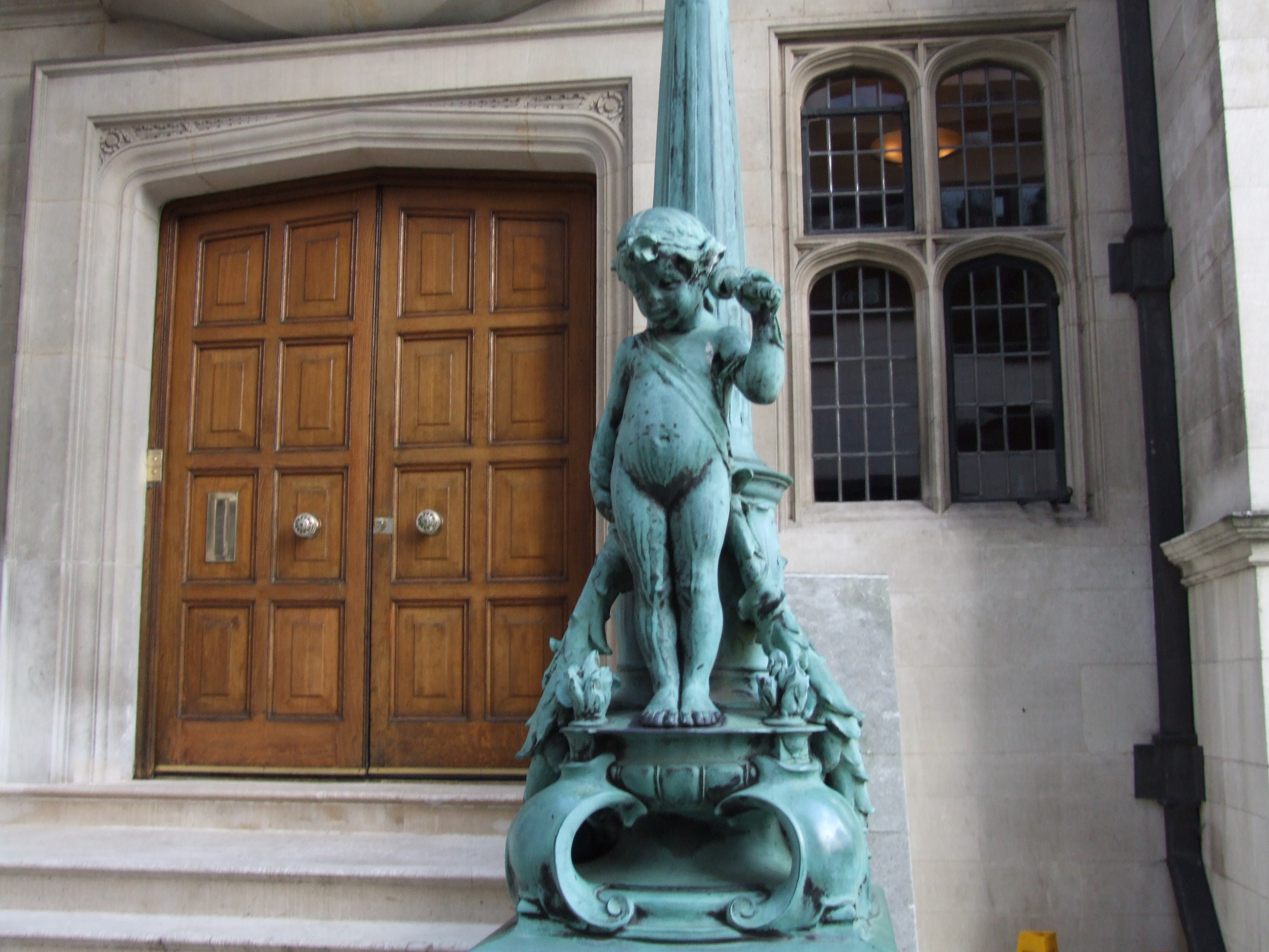 W.S.Frith work at the entrance to 2 Temple Place on the Embankment.